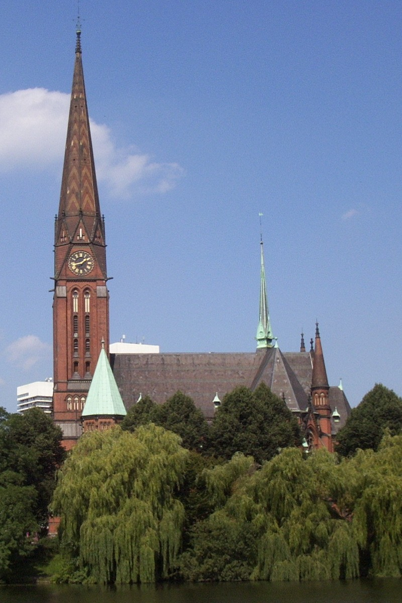 Evangelical-lutheran church Saint Gertrud in the Uhlenhorst district of Hamburg, Germany.